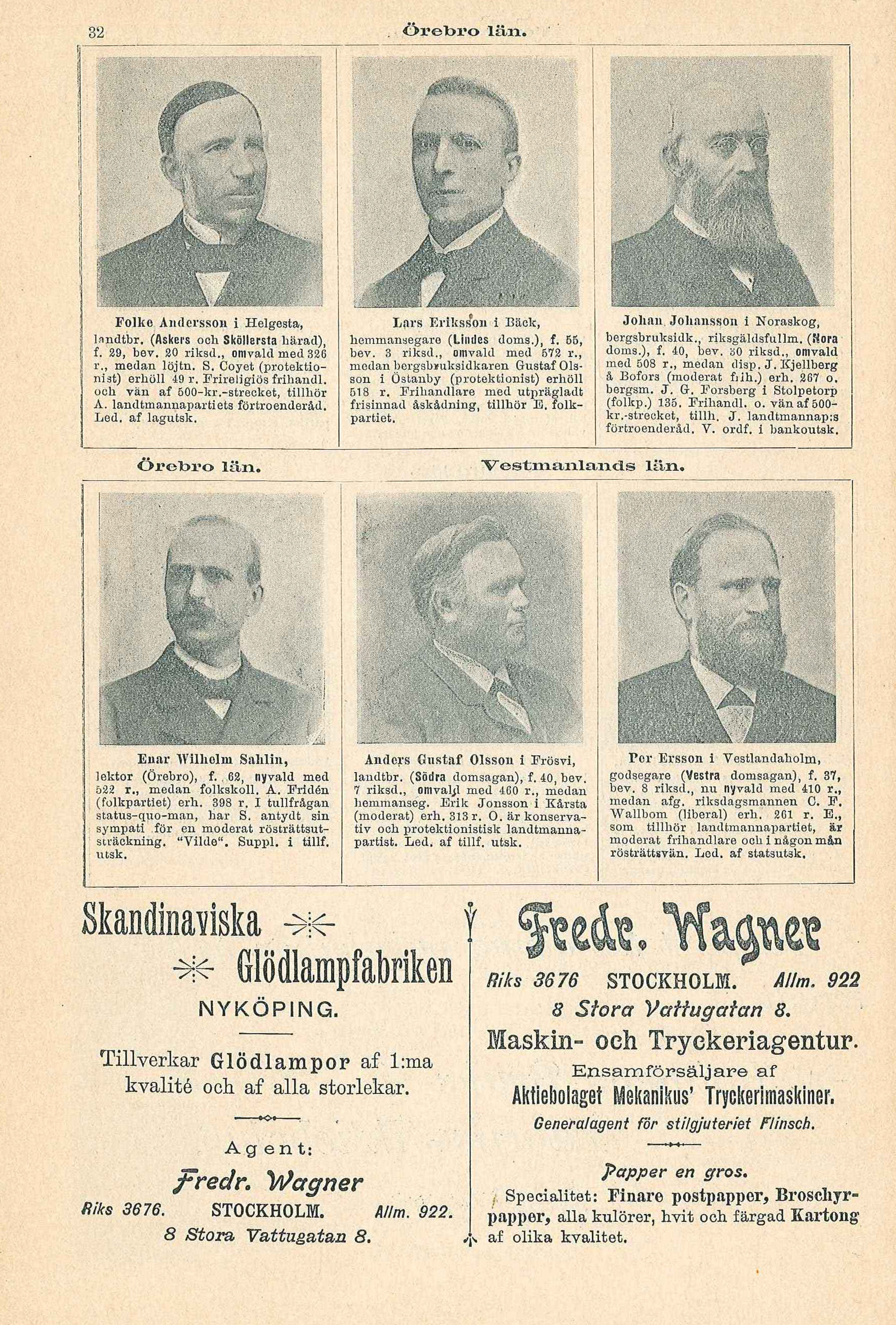 Page 32 of an album featuring portraits of all the members of the second chamber of the Swedish parliament (Sveriges riksdag) elected in 1897. This page featuring parts of the members representing the counties of Örebro and Västmanland.